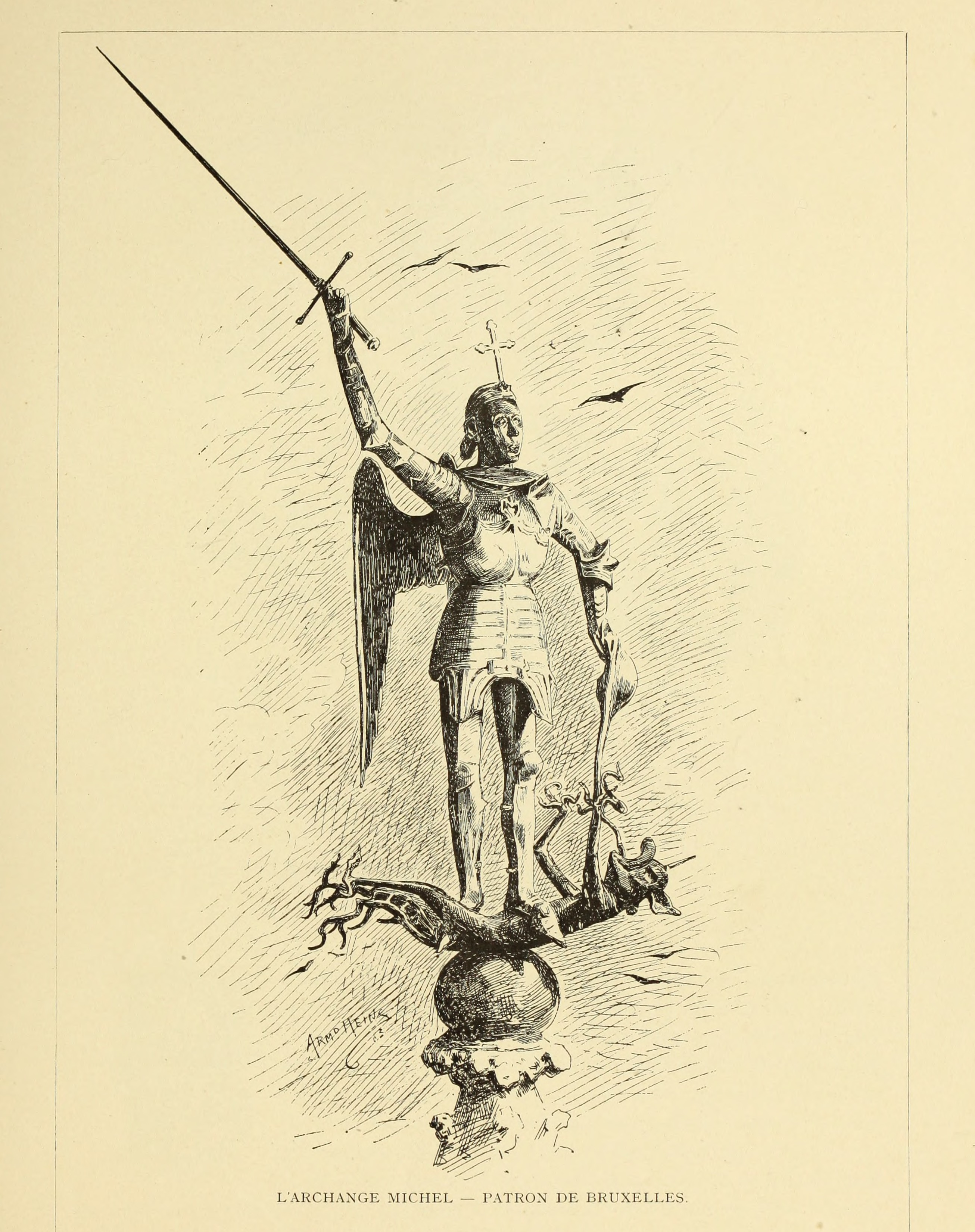 Title: Bruxelles à travers les âges Year: 1884 (1880s) Authors: Hymans, Louis Salomon, 1829-1884 Hymans, Henri, 1836-1912 Hymans, Paul, 1865-1941 Subjects: Publisher: Bruxelles : Bruylant-Christophe Text Appearing Before Image: ' Text Appearing After Image: Celte statue, faite pur Martin Van lîode, au XV? siècle, a été descendue de la tour en 1803. à la suite dun orage qui lavait endommagée.Le dessin de Heins est le Jnc simile dune photographie prise à cette époque.Voir la description et lhistoire du saint Michel au chapitre VU. LArchange Michel terrassant le démon.Dessin de Heins daprès une estampe de la Bibliothèque royale. AVANT-PROPOS. ruxelles raconté par ses monuments, le récit des transformationsque la ville a subies à travers les âges; tel est lobjet de ce livre. MM. Henné et Wauters, il y a quarante ans, ont retracé jourpar jour les annales de la cité depuis dix siècles. Je nai dautreprétention que de mettre en lumière les curiosités quils ontdécrites. Le crayon complétera lœuvre de la plume; lart dudessinateur popularisera la science des historiens. Au printemps de 1882, ayant des conférences populaires àdonner au Musée du Nord, jesquissai à grands traits le tableau de Bruxelles autemps jadis. Jeus